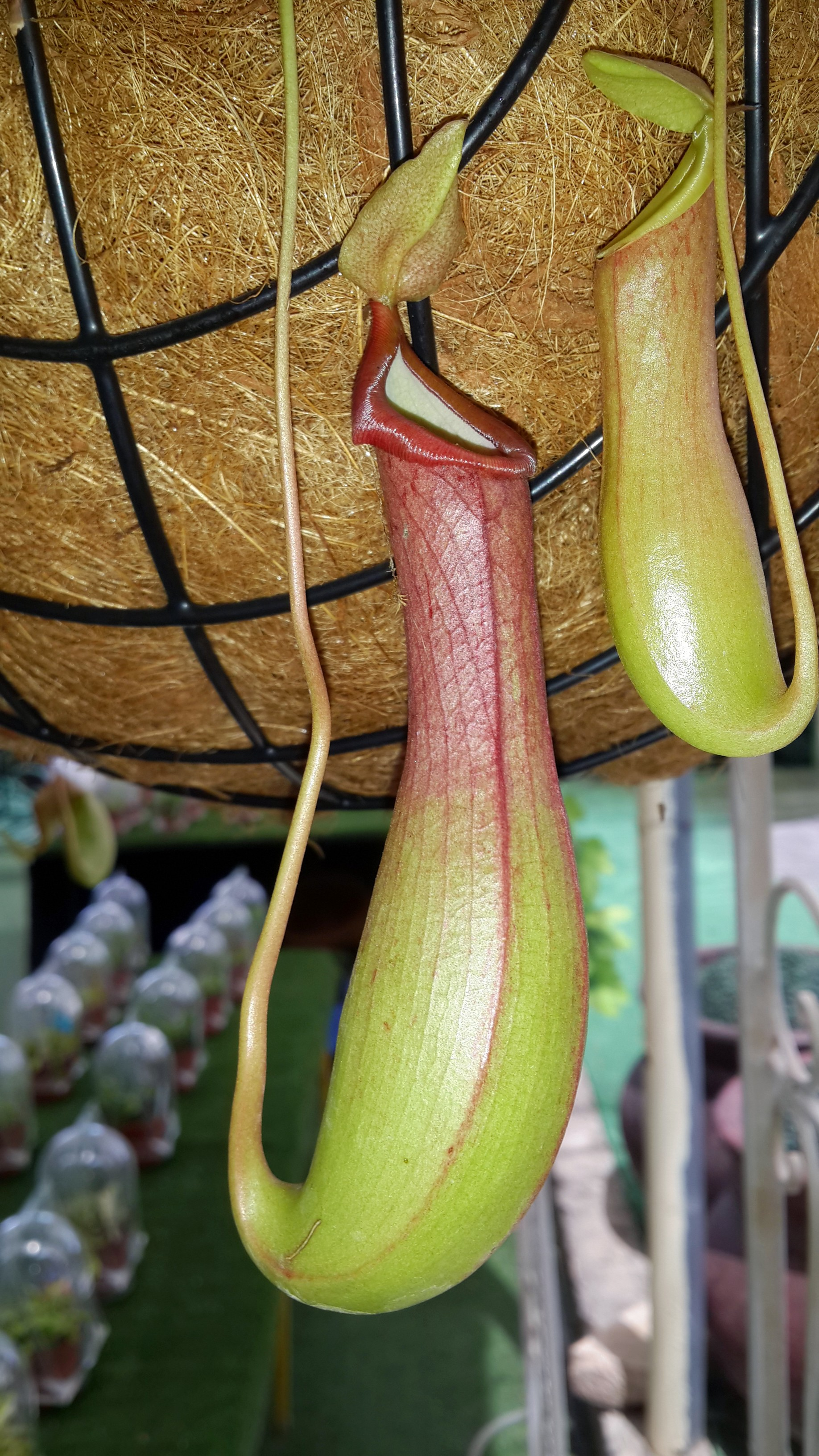 Sarracenia Nepenthes sp. in Utopia park, Israel